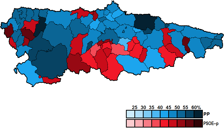 Most-voted party in Asturias municipalities, showing vote share obtained, in the Spanish general election, 2000.